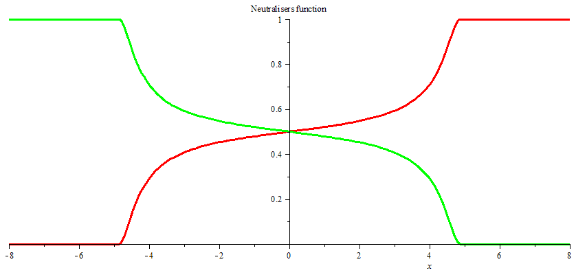 Neutralisers function